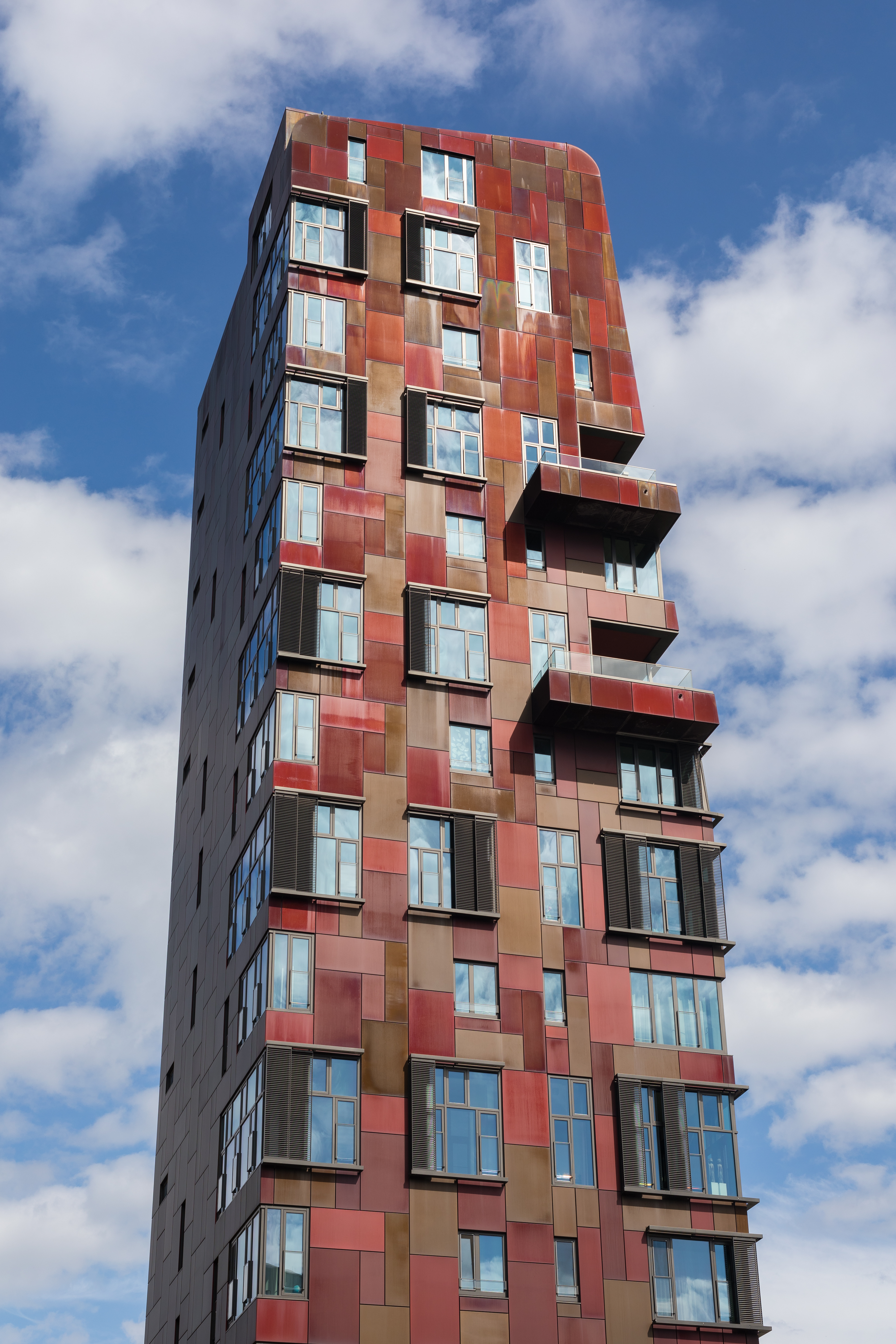 High-rise appartment building on the corner of Osakaallee and Tokiostraße, HafenCity quarter Hamburg, as seen from Überseeboulevard. The building is an example of the solitary architecture that this part of Hamburg has been criticised for.